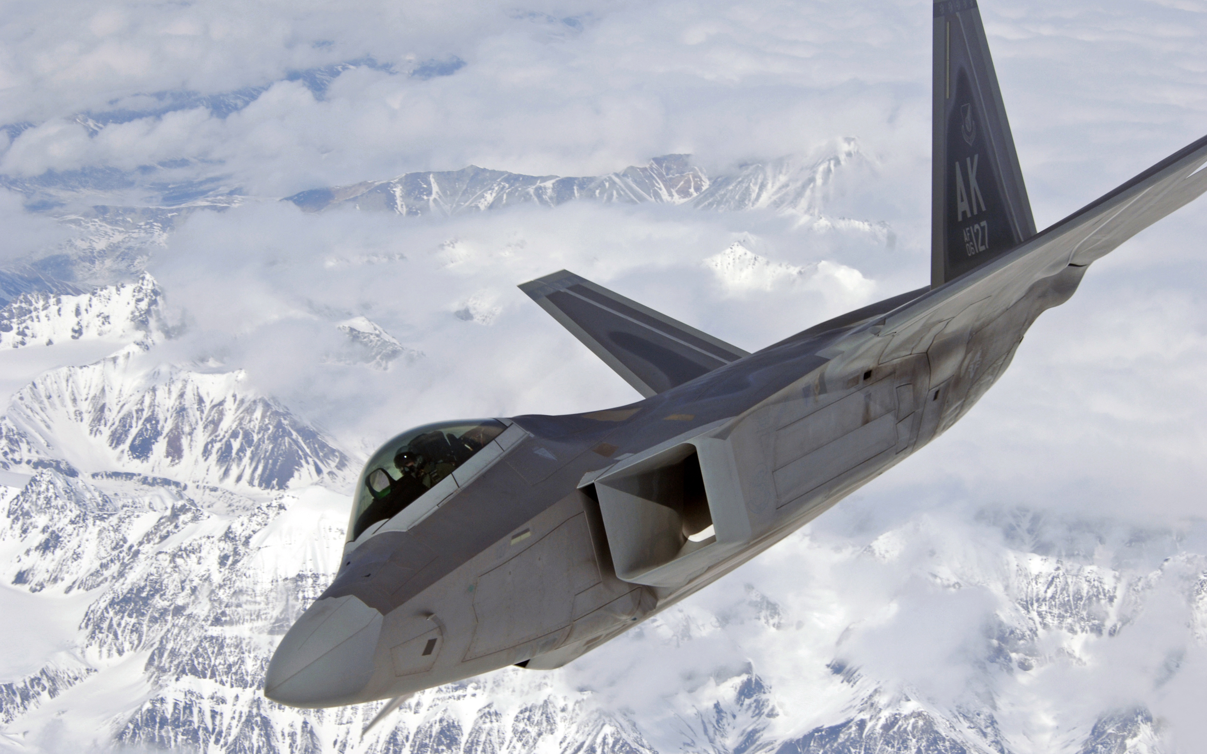 An F-22 Raptor breaks to the right over Alaska's rocky terrain during an in-flight refueling mission April 15, 2009.